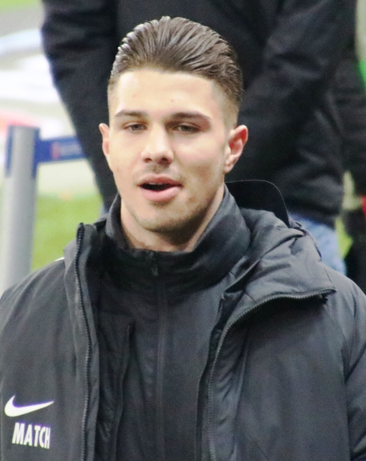 Uefa Europaleague round of 32